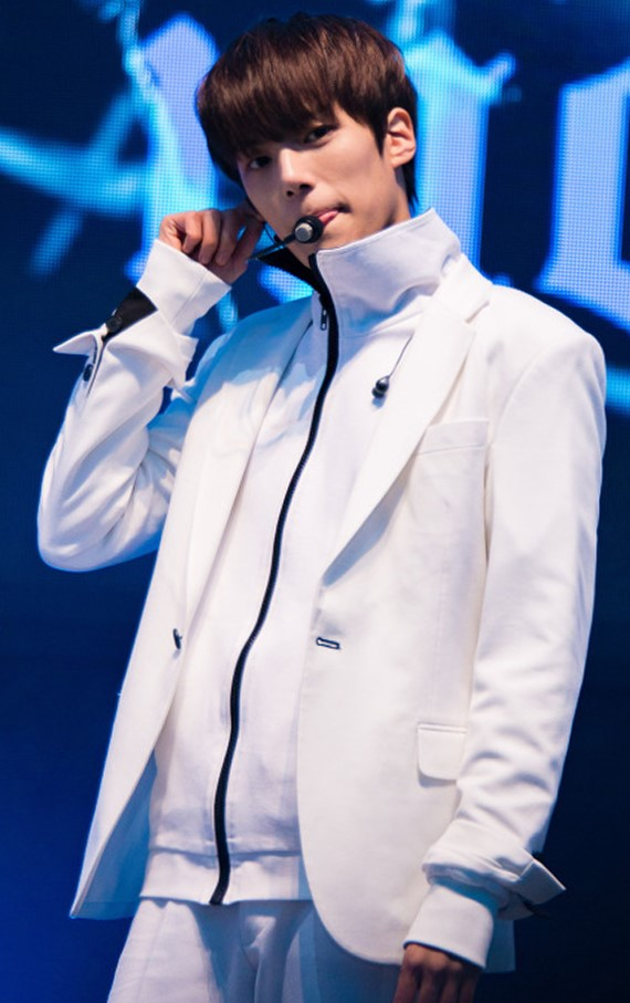 Lee Min-hyuk at Old School Public Broadcasting on October 9, 2016.